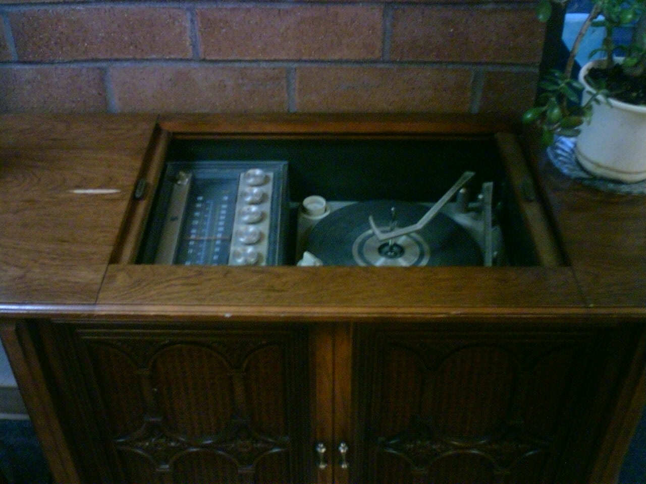 1960s style wooden stereo console with radio and mid-fi record changer in senior housing on Mercer Island, WA.